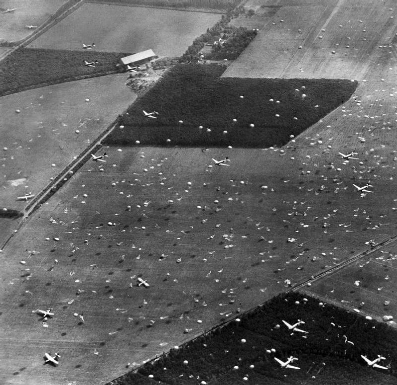 "Operation Market I": the airborne operation to seize bridges between Arnhem and Eindhoven, Holland, (part of "Operation Market Garden"). Oblique photographic-reconnaissance aerial showing Douglas Dakotas dropping paratroops of 1st Airborne Brigade on to Dropping Zone (DZ) 'X', at Renkum, west of Arnhem.